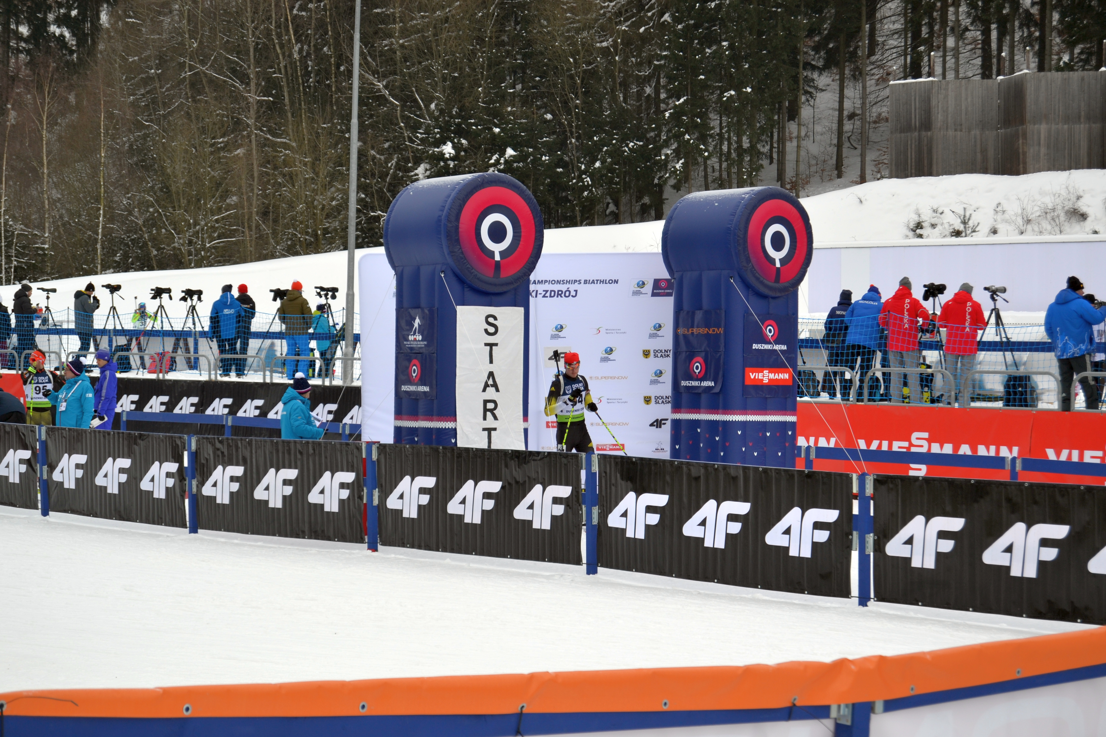 Open European Championships Biathlon 2017, Individual Men's race, held on January 25th.